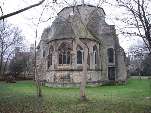 Church of England parish church of St Frideswide, Botley Road, Oxford: view from the east.